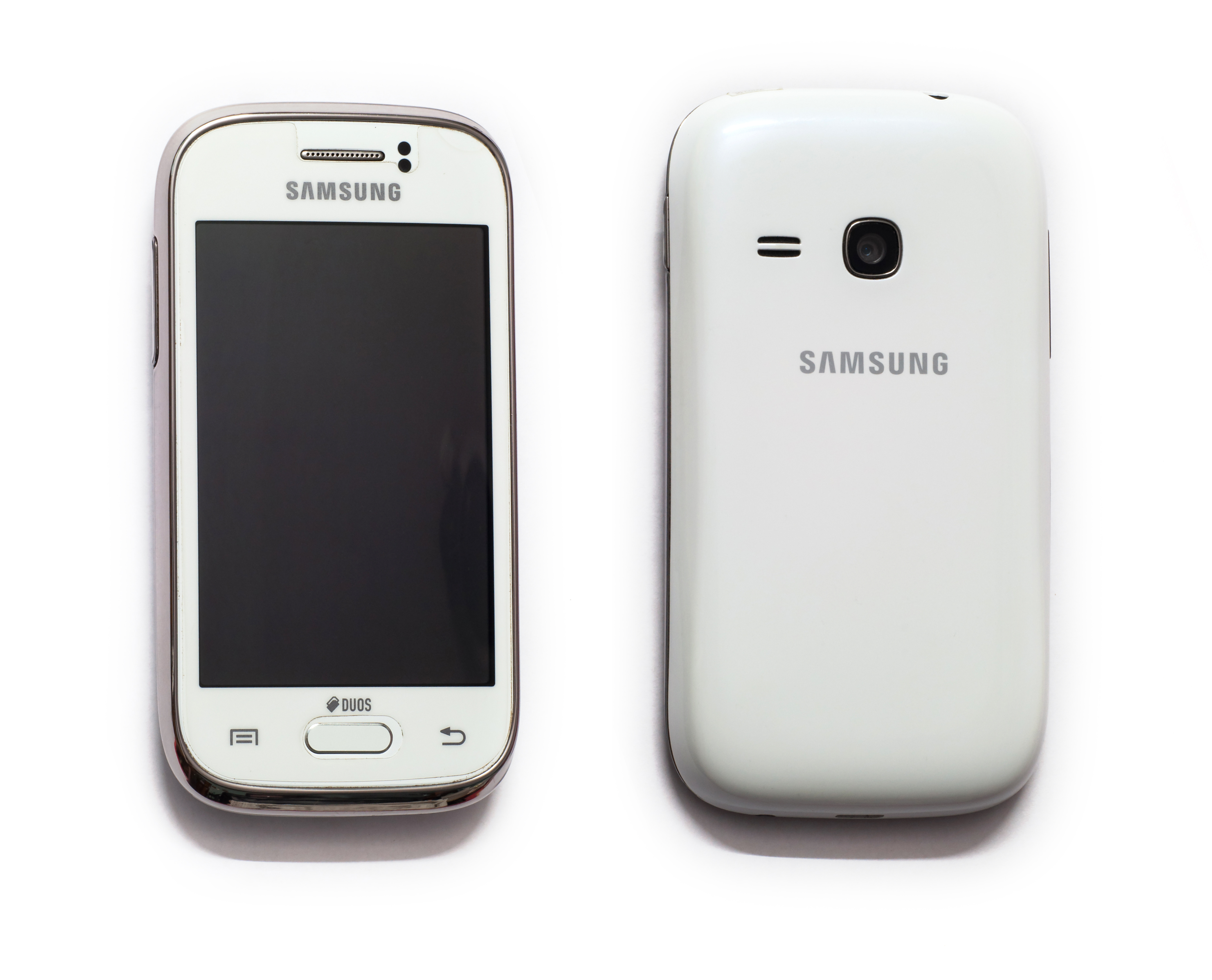 Samsung galaxy young android mobile phone.